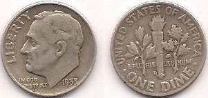 Both sides of a Silver Roosevelt Dime from 1953.